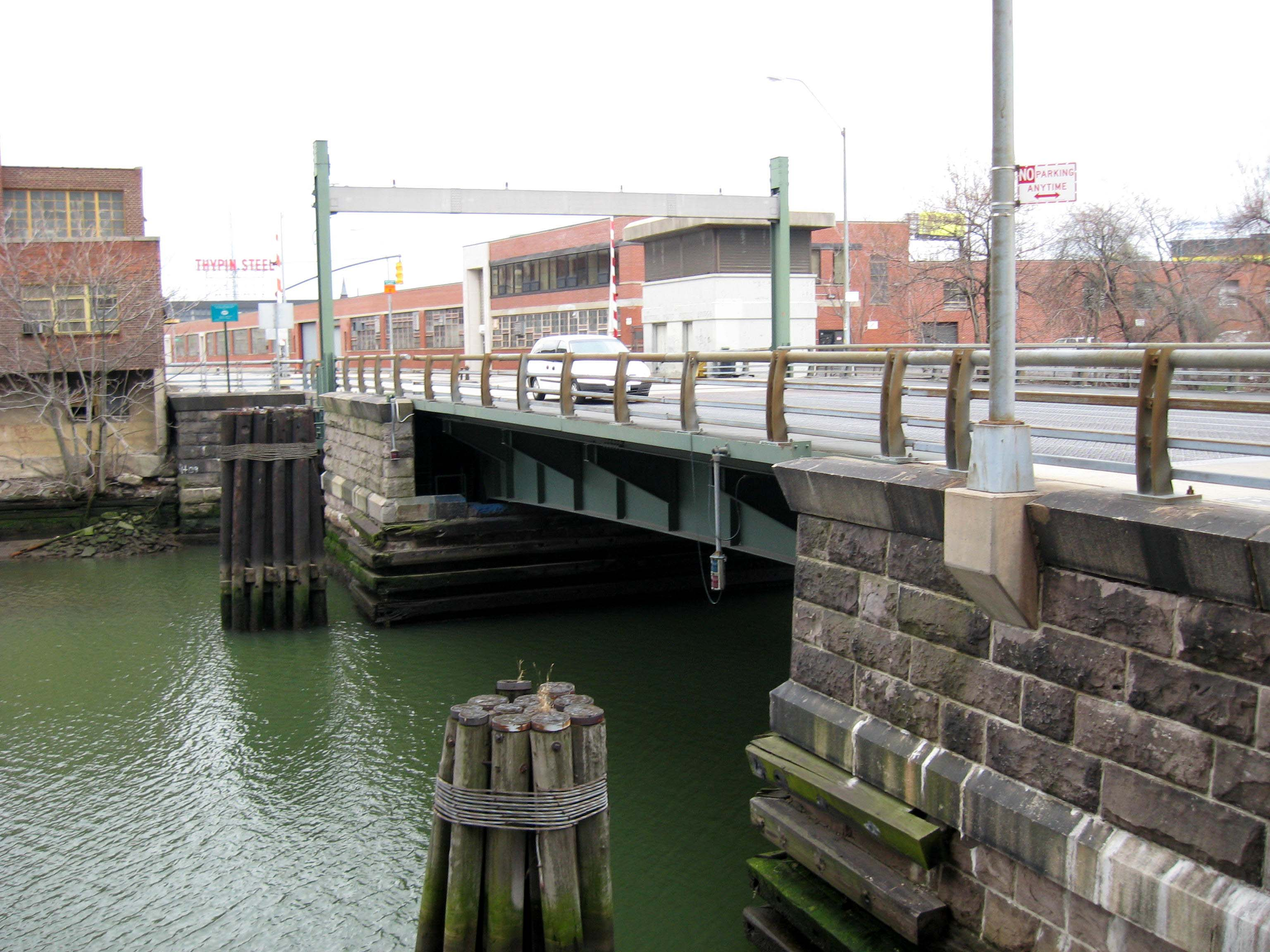 I stood on the upstream (north) side of Hunterspoint Avenue Bridge designed by Edward Abraham Byrne, right (west) bank of Dutch Kills on a cloudy afternoon in early Spring.